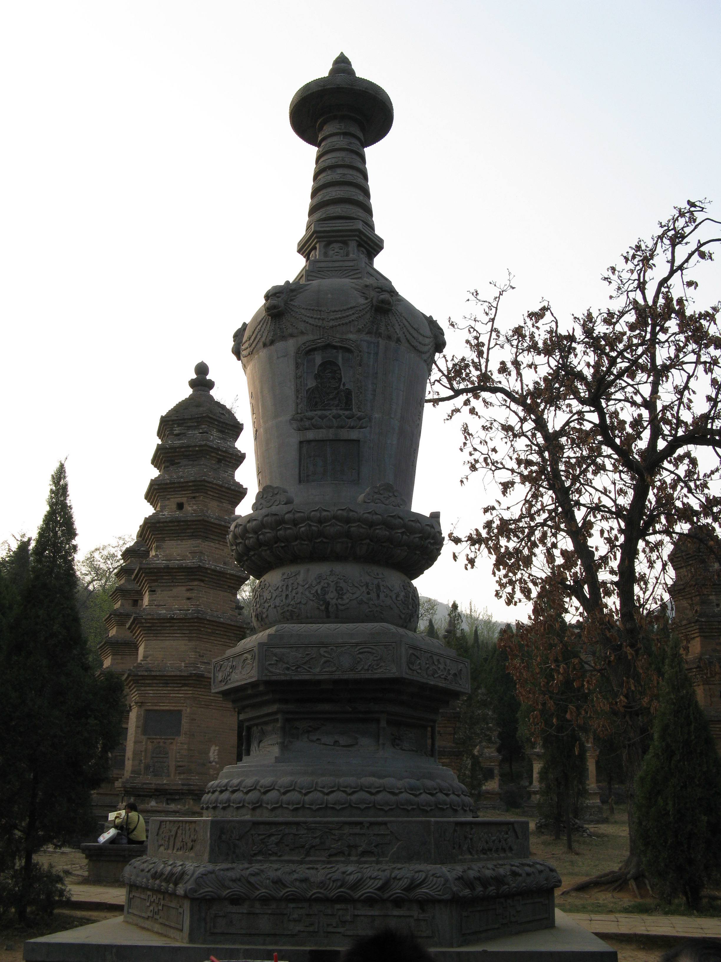 The Pagoda Forest at Shaolin Temple